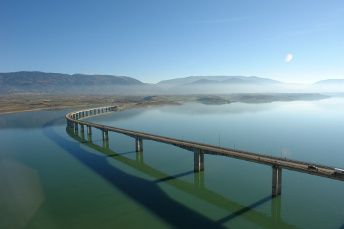 Gefyra Polyfytou Servia